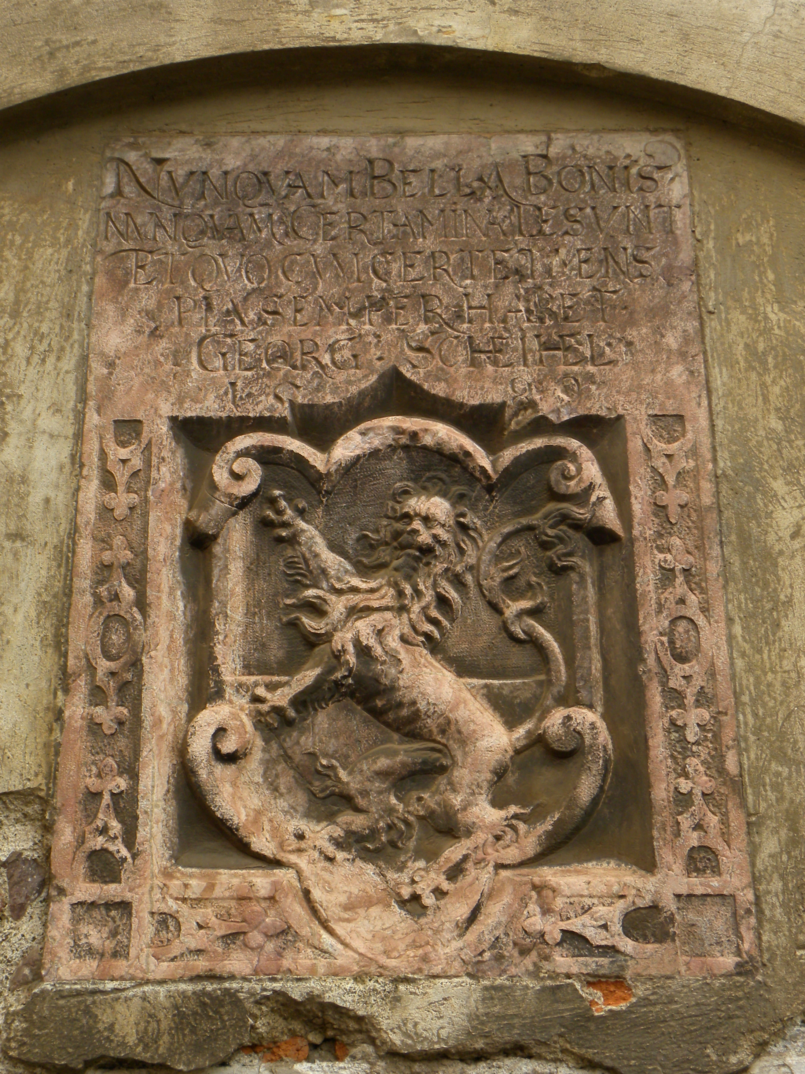 Wars and contentions never cease The righteous man to vex: Here, pious minds can know no peace, Where enemies perplex.]